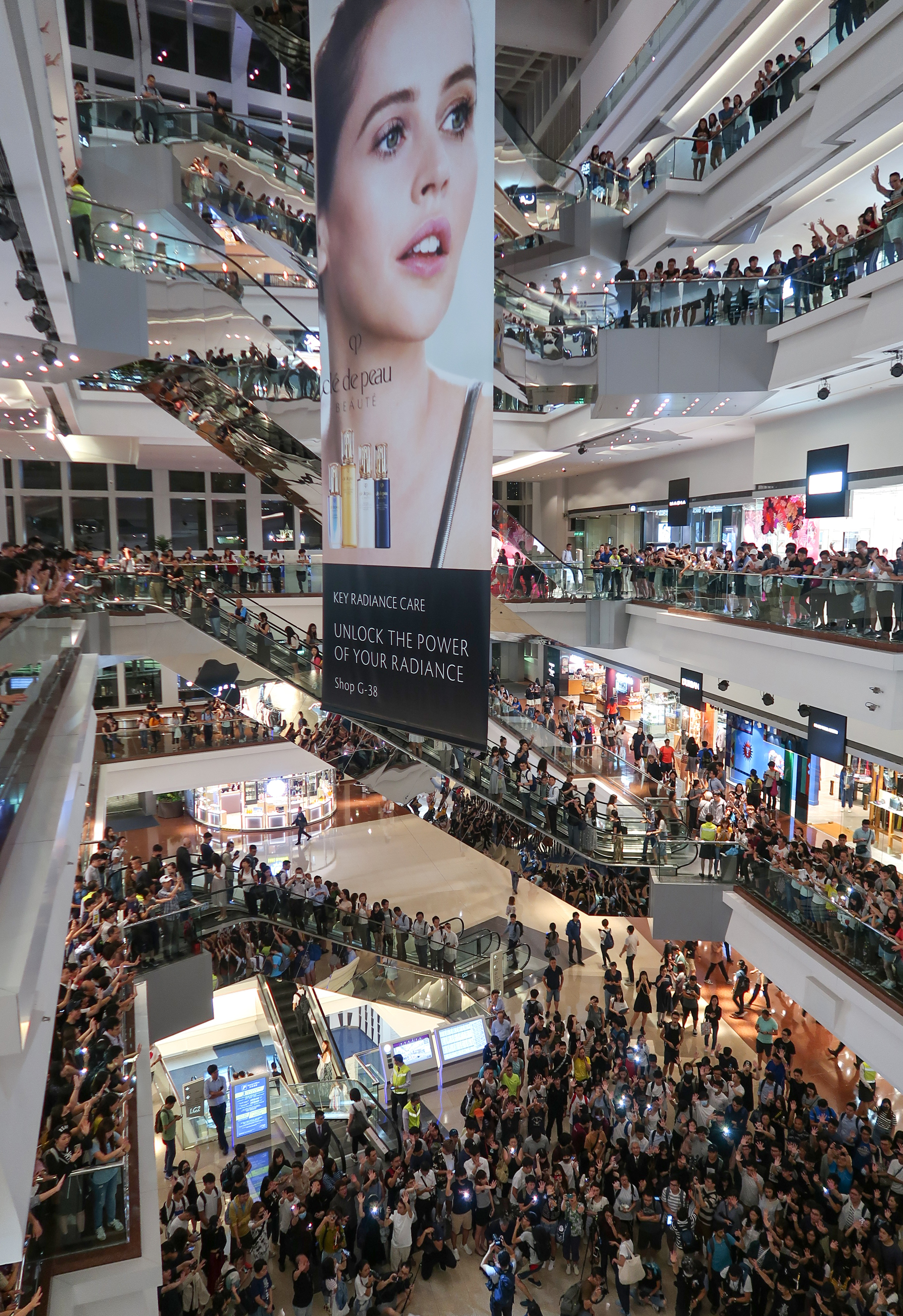 Glory to Hong Kong in Festival Walk